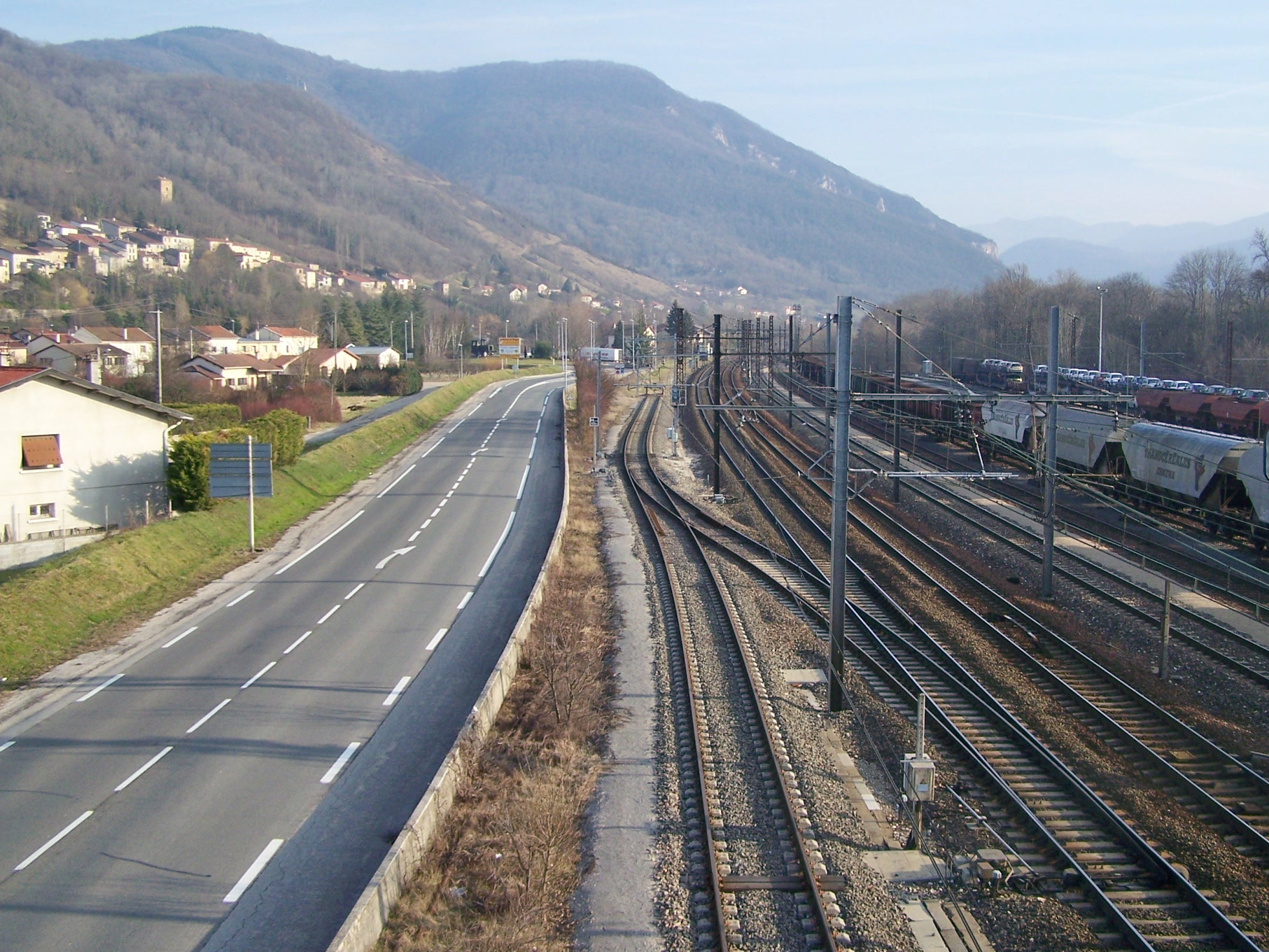 Sight of French RD 1504 road and Lyon to Geneva (Switzerland) railway line leaving city of Ambérieu-en-Bugey in Ain and goint to the Alps.